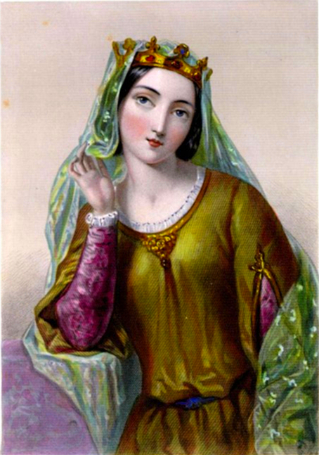 Isabella of Angoulême, queen of England